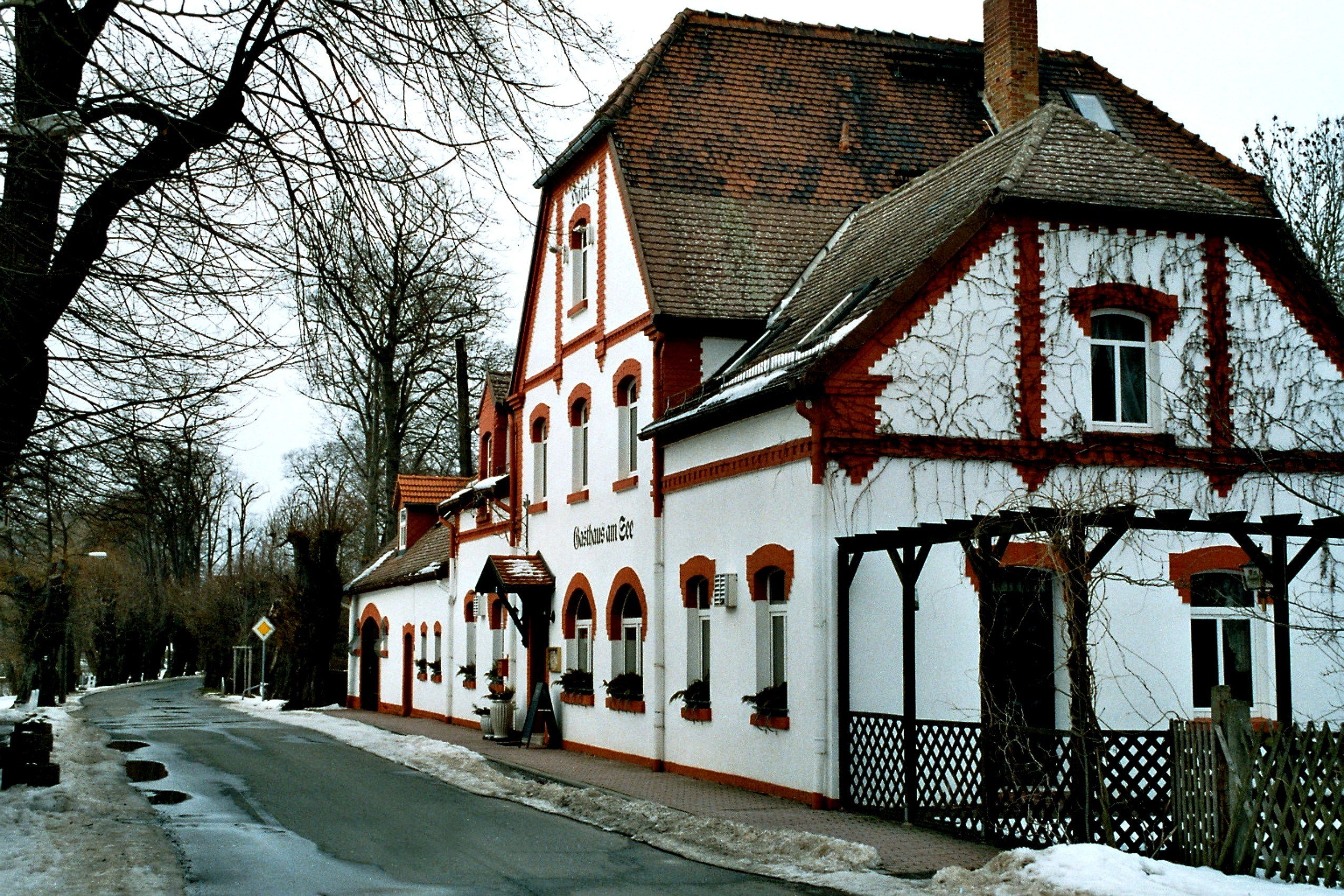 The Restaurant "Am See" (on the lake)